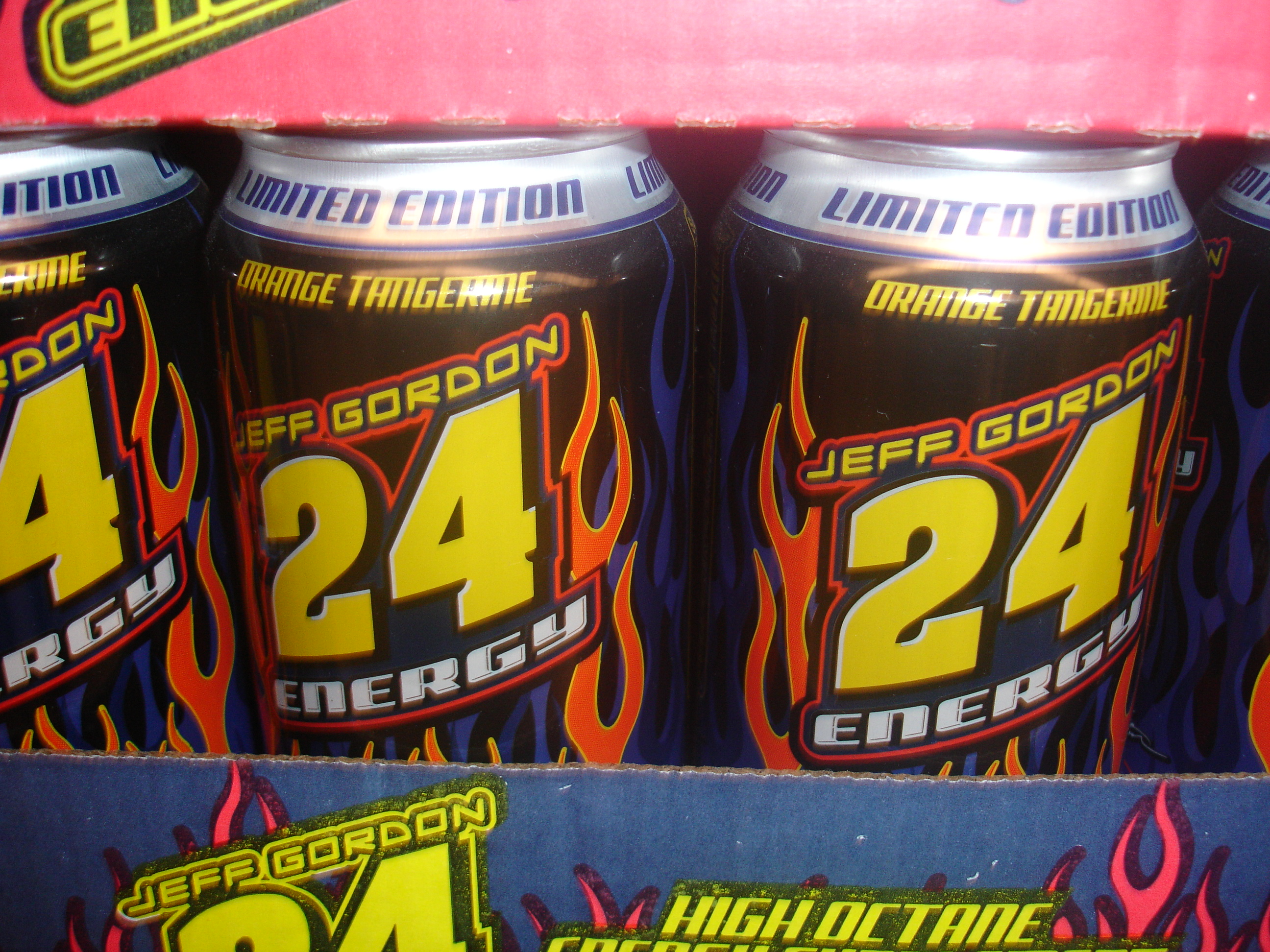 Didn't know this existed...first time I've seen it.